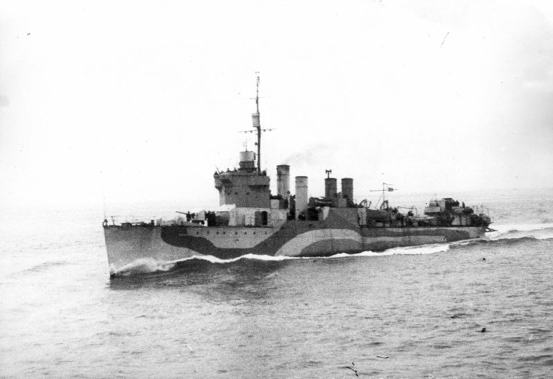 The Soviet destroyer Zharkii. Undated, location unknown.